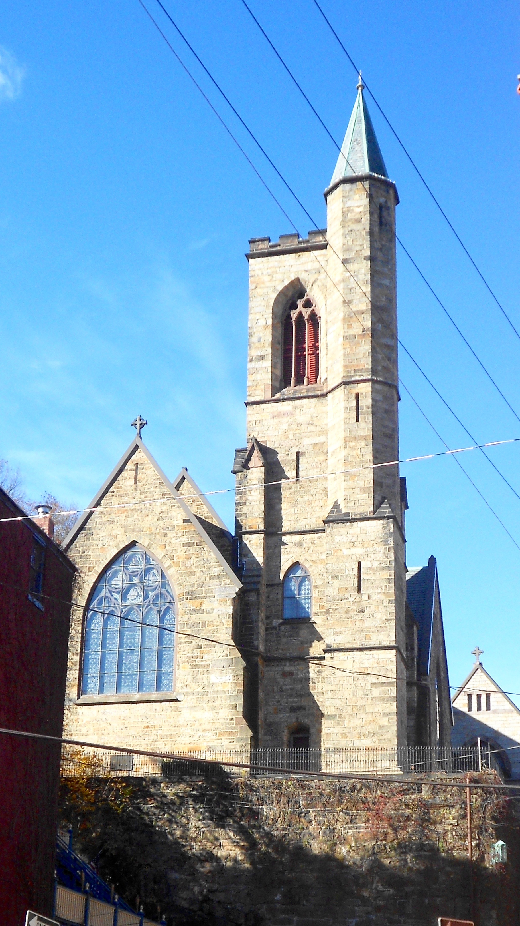 St. Mark's Church in Jim Thorpe, Pennsylvania